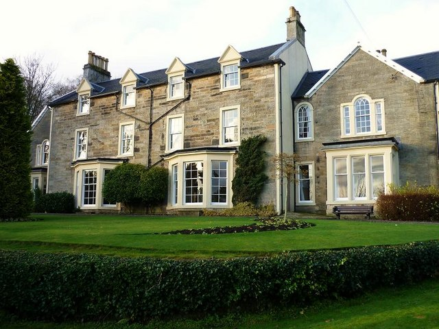 Colzium House Originally built in 1783.